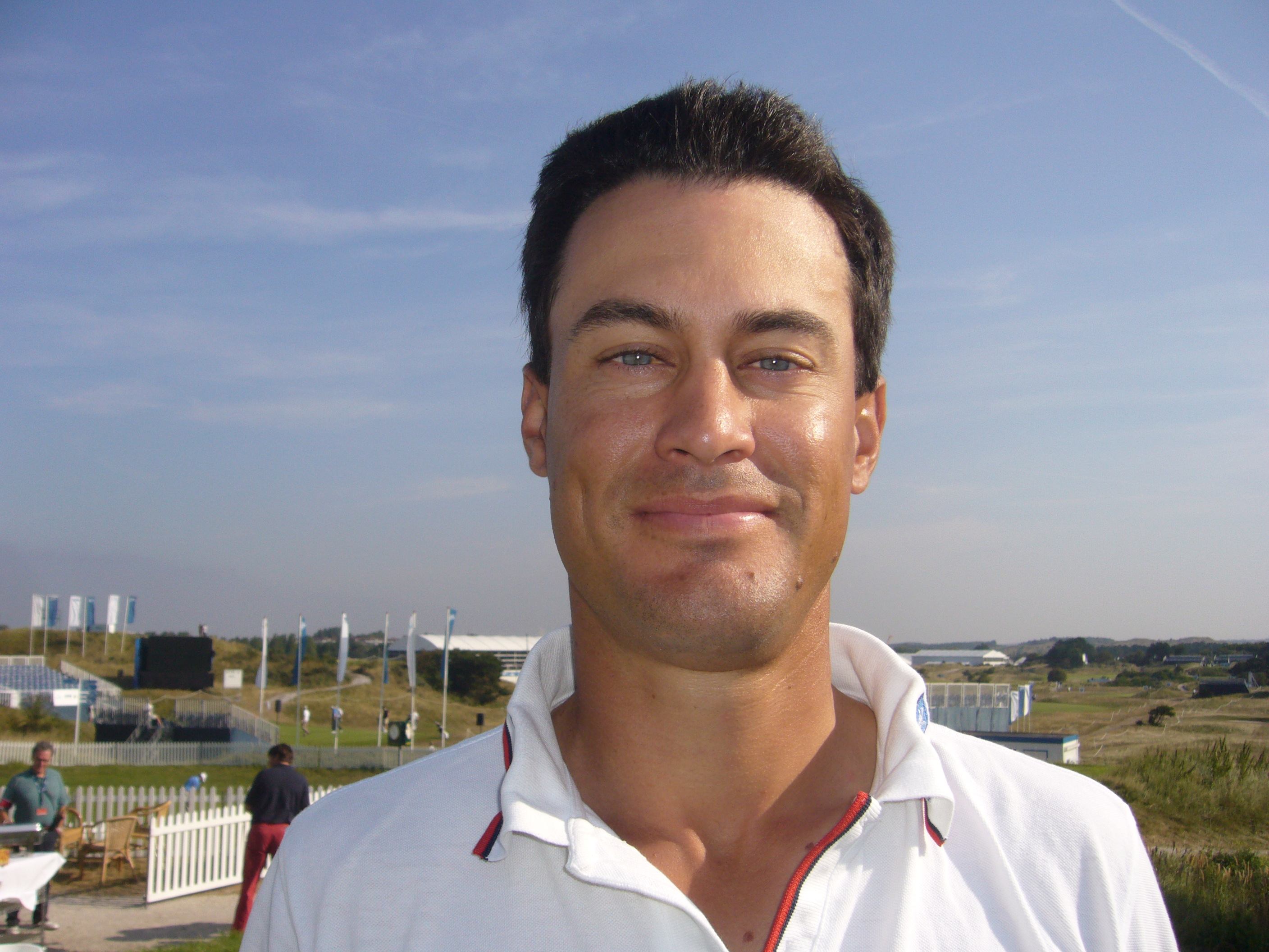 Inder van Weerelt, Dutch professional golfer